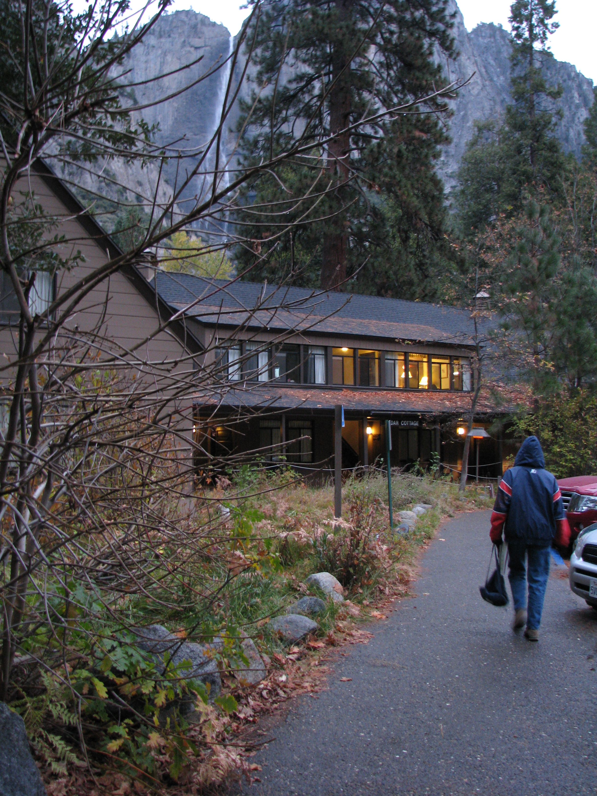 From this perspective Yosemite Falls can be seen behind Yosemite Lodge at the Falls